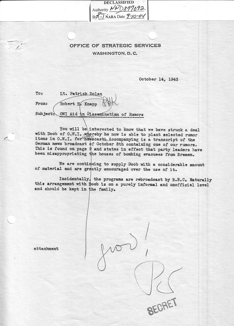 Internal memorandum concerning the relationship between the US Office of War Information and the OSS' Morale Operations Branch with respect to the injection of covert propaganda themes into overt information broadcasts